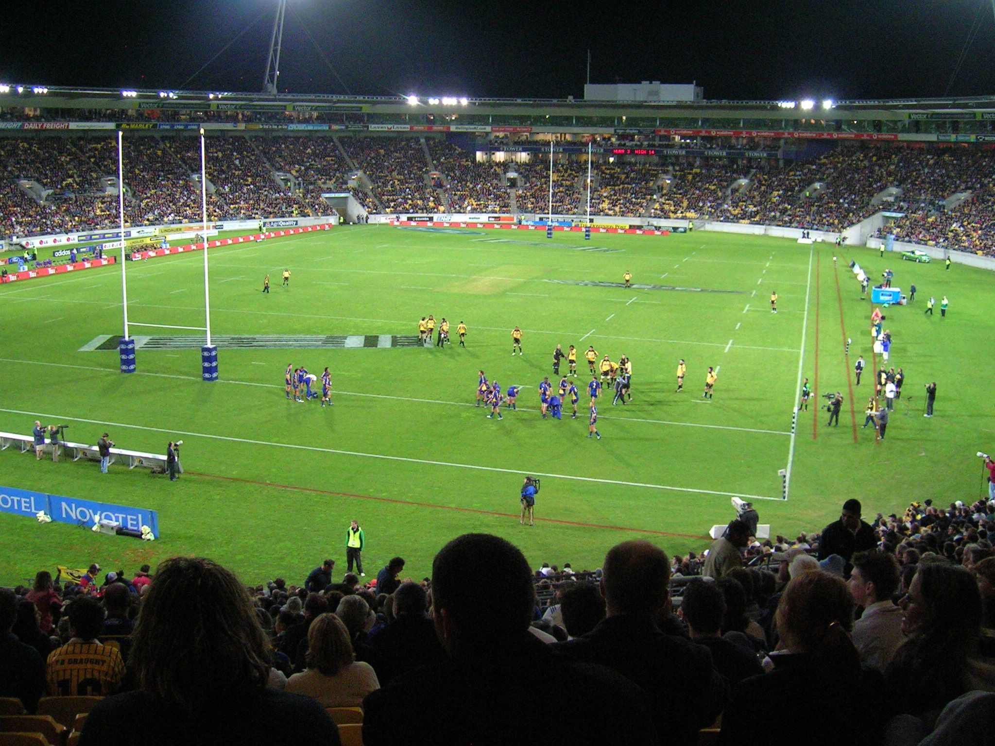 Rugby at the Stadium